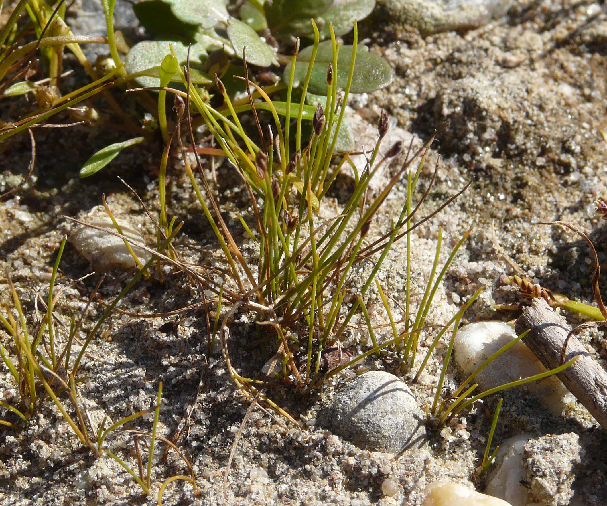 Eleocharis acicularis at the riparian of Rhein river, Rheinstrandbad Rappenwört, Karlsruhe (Germany).